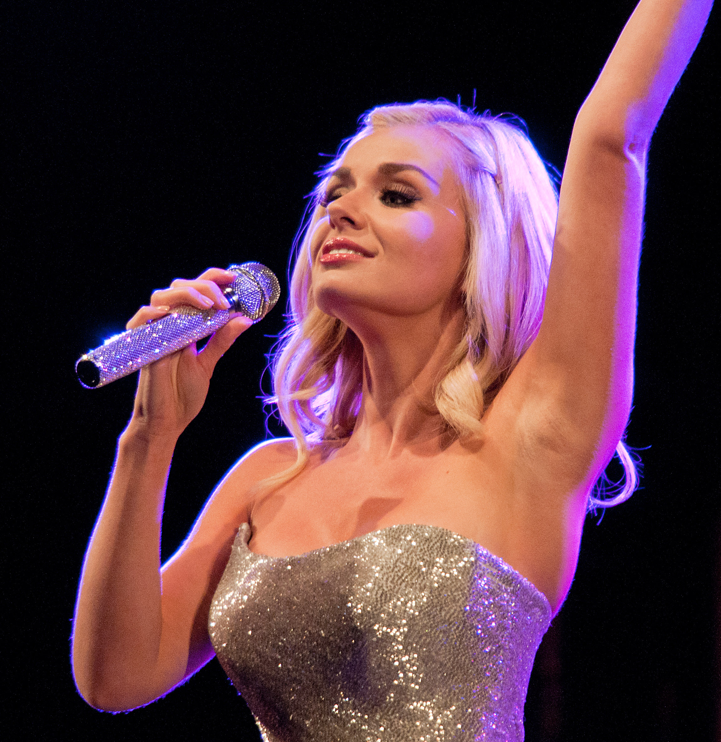 Katherine Jenkins live at Clumber Park in August 2011.